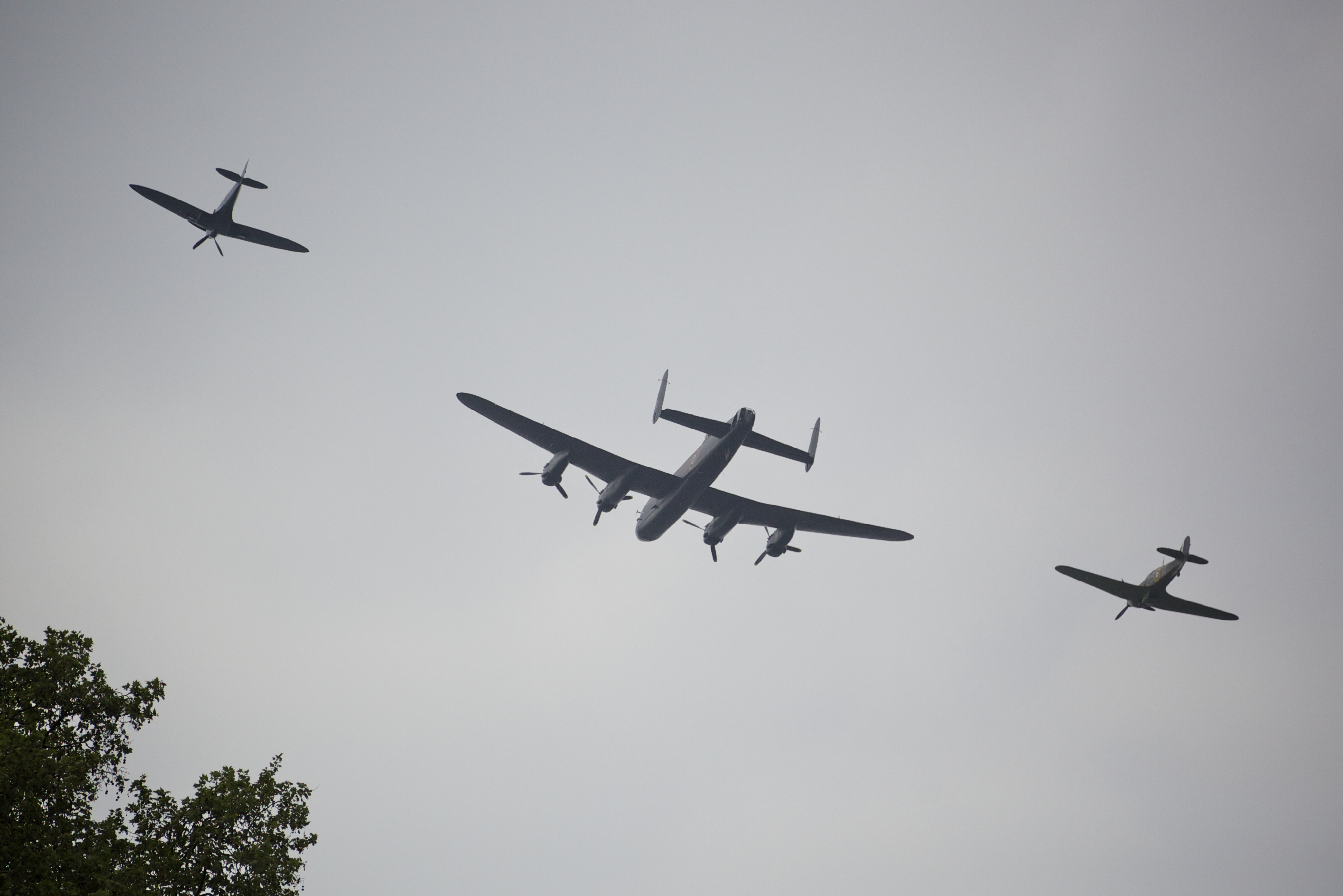 Flypast over Buckingham Palace, London, England for the celebrations following the Royal wedding of Prince William and Kate. The flyover of one Avro Lancaster bomber, one Spitfire and one Hawker Hurricane fighter aircraft was executed over Buckingham Palace, within sight of the celebrating public. This was then followed by a "Diamond 4" formation consisting of two Eurofighter Typhoon and Panavia Tornado jets.